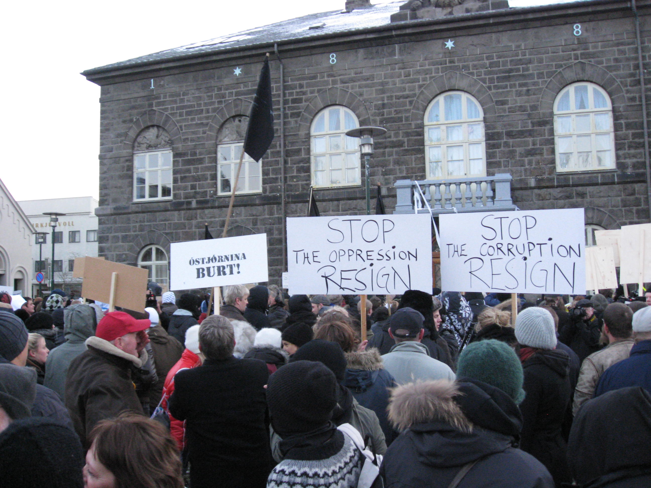 Protests on Austurvöllur because of the Icelandic economic crisis. Some protesters are waving black flags, some have signs in English.